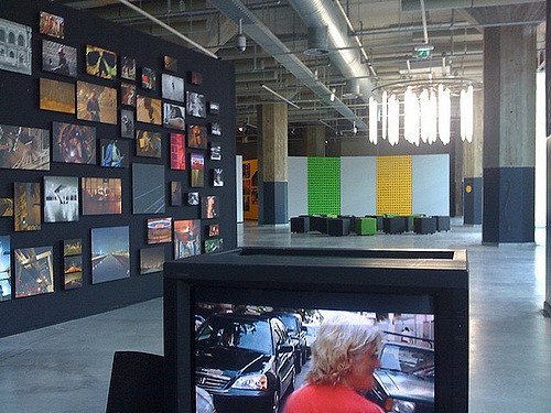 Uploaded with AirMe